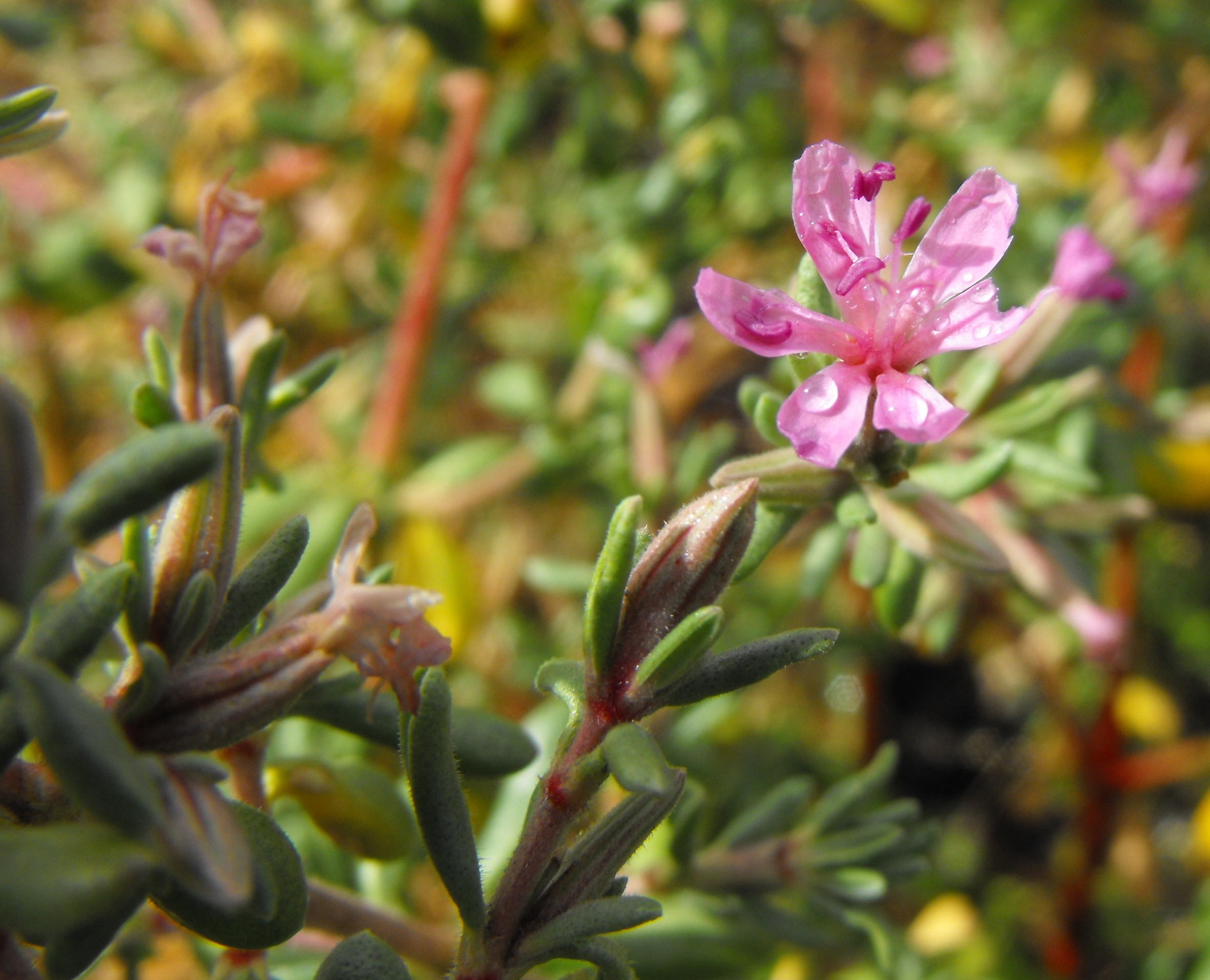 Frankenia salina at San Elijo Lagoon, San Diego County, California, USA.